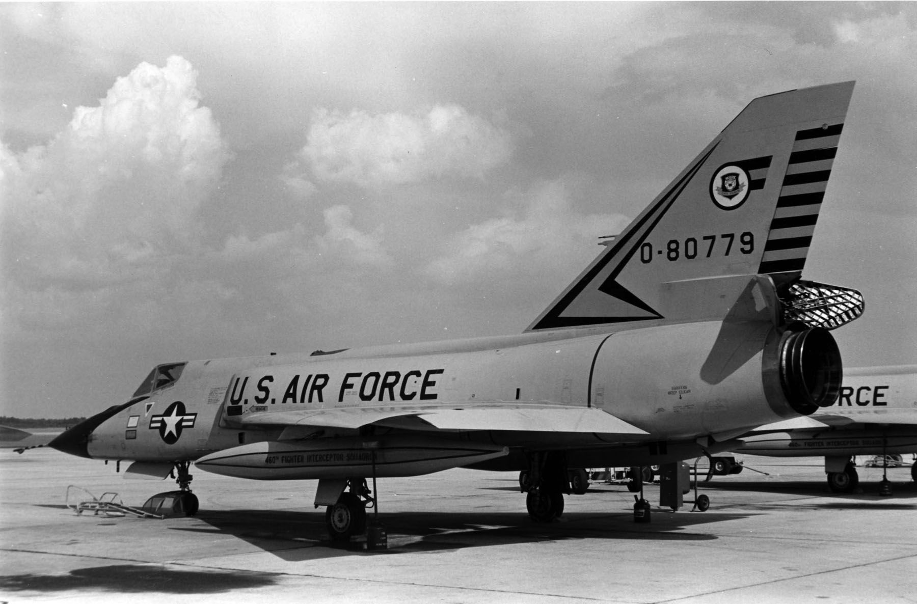 A U.S. Air Force Convair F-106A-100-CO (s/n 58-0779) of the 460th Fighter-Interceptor Squadron.